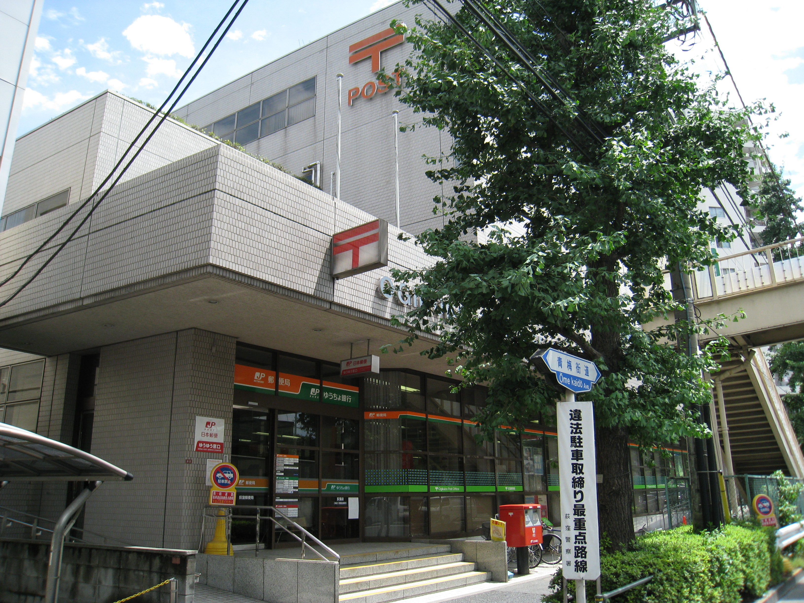 Ogikubo_postoffice. Suginami-ward, Tokyo, Japan